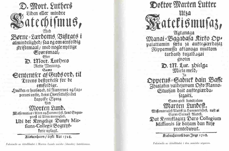 Title page of two language [danish (norwegian)/northern samish] edition of Martin Luther Catechism in translation of Morten Lund, Copenhagen 1728